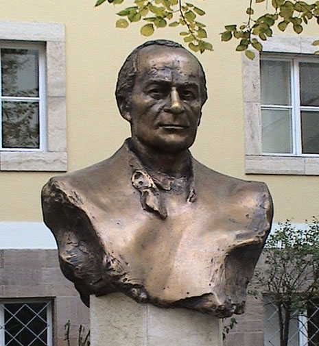 Statue of Attila Nagy, hungarian actor. Sculptor: Géza Balogh